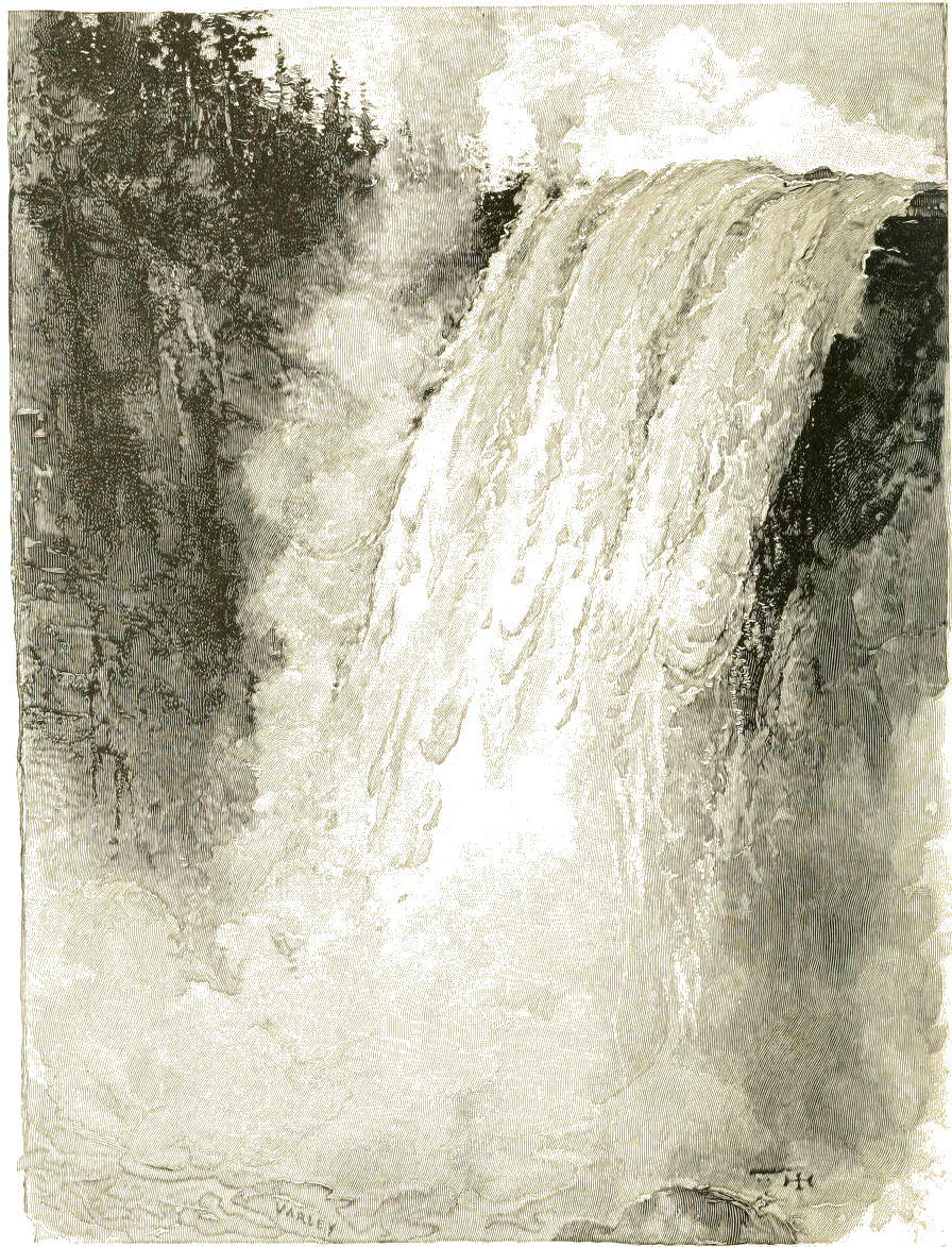 Caption: View of the Grand Falls, from the Projection of Rock below. (Based on an imperfect photograph.)